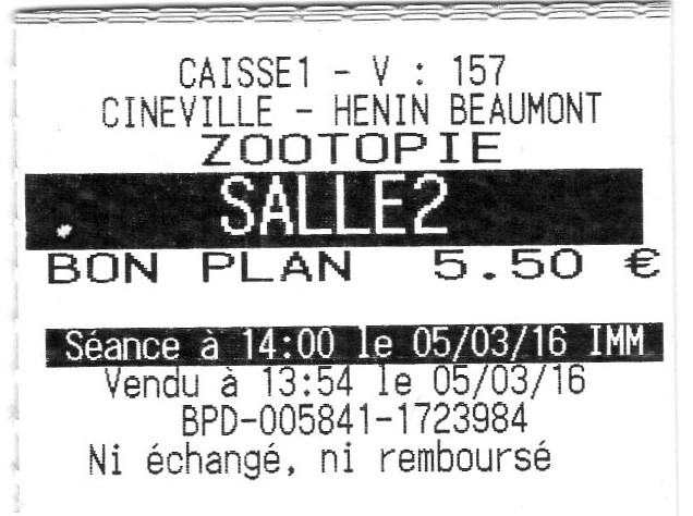 Theatre ticket for the 2:00 PM showing of the film Zootopia by Byron Howard and Rich Moore, March 5, 2016, at the Cinéville Complex of Hénin-Beaumont.